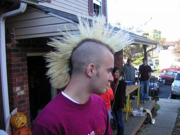 Bleached, charged hawk.